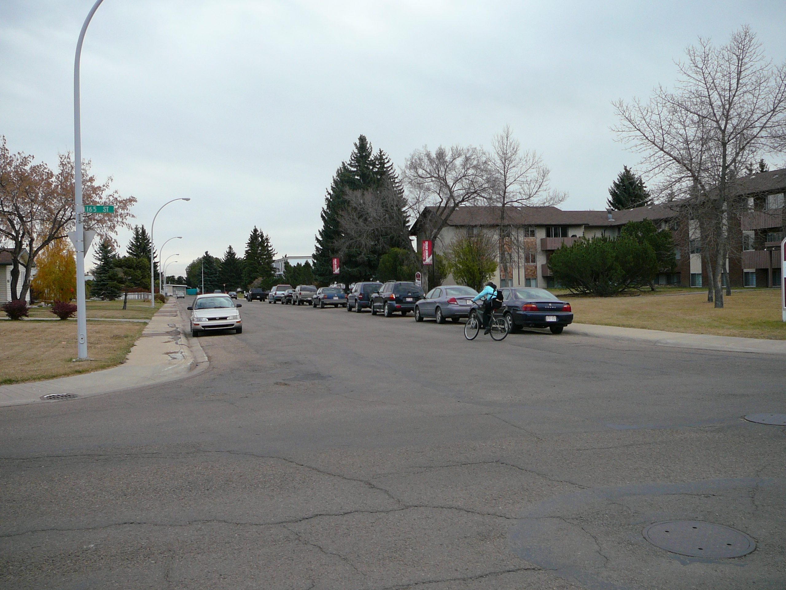 Picture of a residential sidestreet in the Edmonton, Canada, neighbourhood of Glenwood